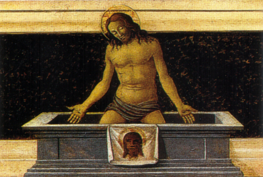 Pietà from the predella of the Cestello Annunciation